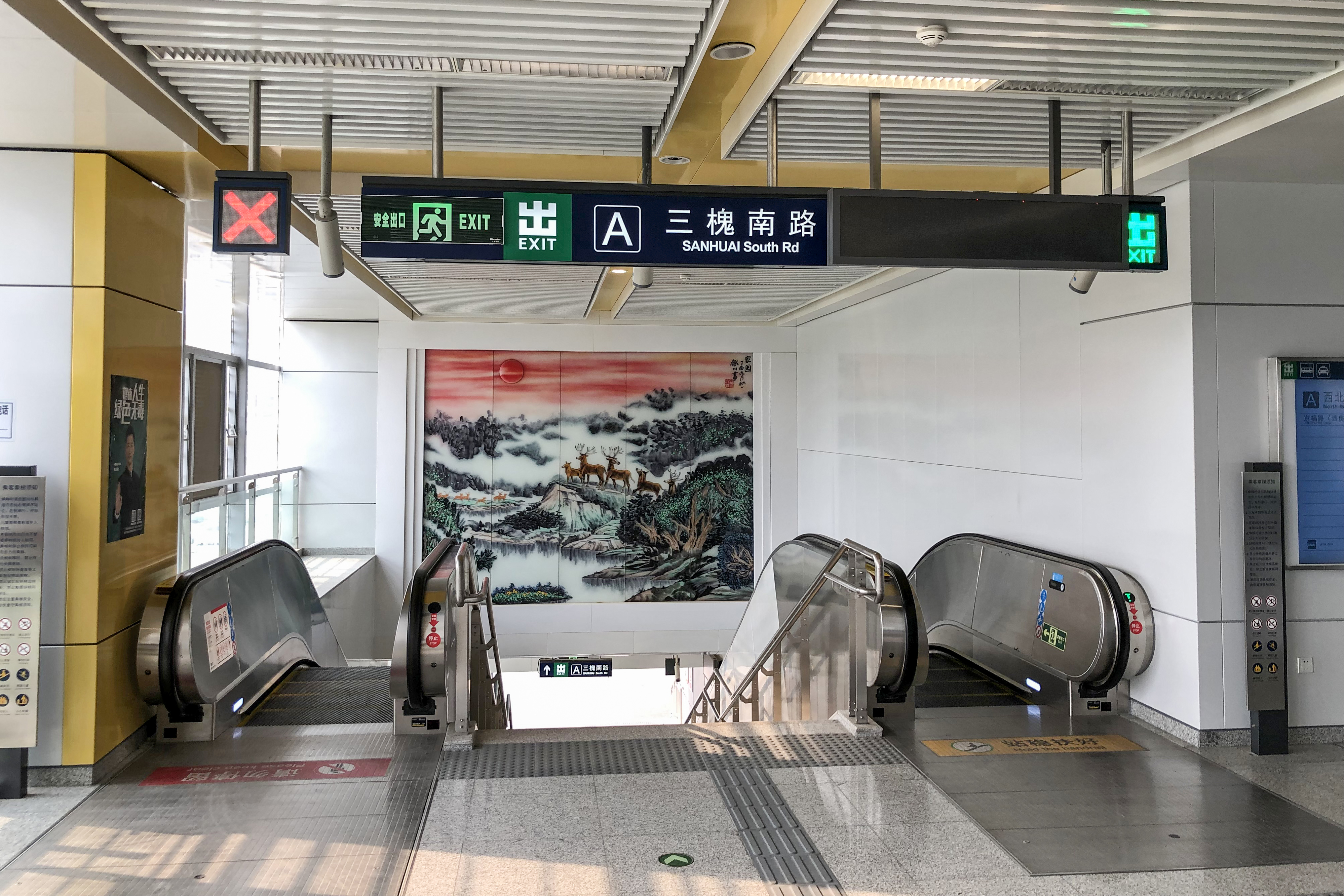 With a painting of Père David's deer by Zhu Tiechuan (朱铁川), a local resident of Yinghai town.